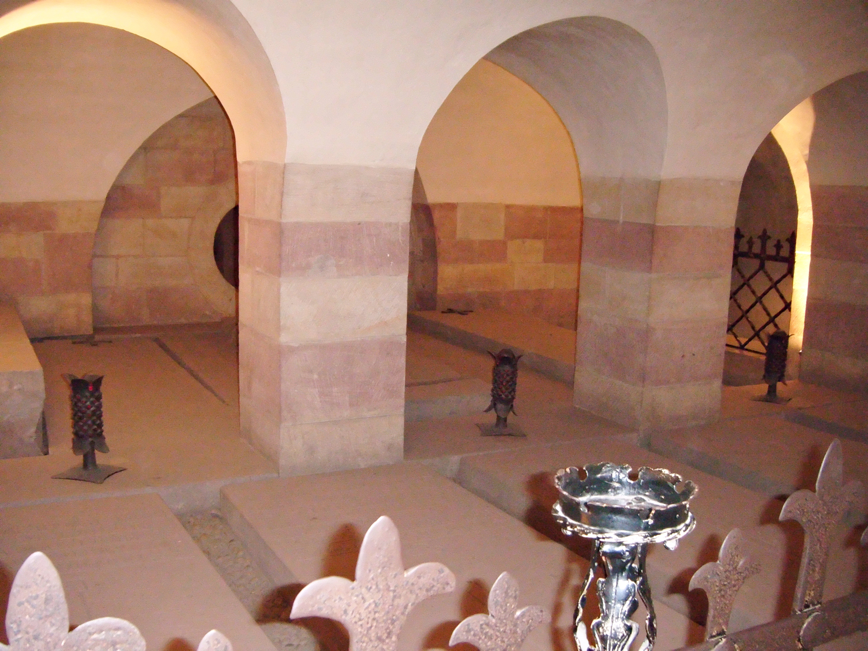 Kaisergruft Speyerer Dom